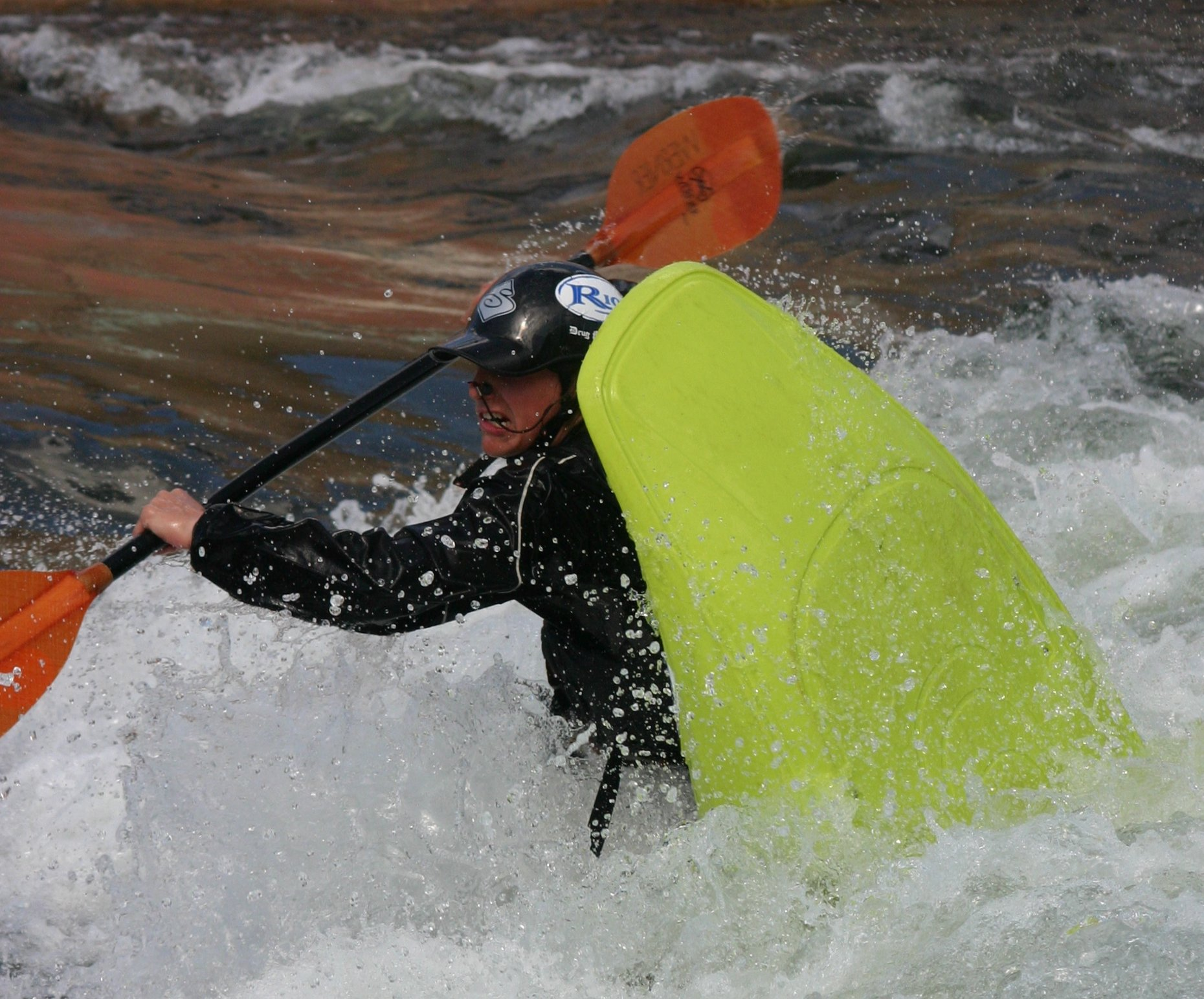 A kayaker, who has performed a bow stall, is in the process of tipping over head first. The kayaker stands upright, with his back against the stern of the boat; the bow is hidden in the water.